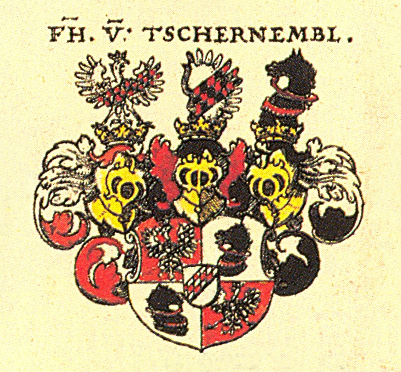 Coats of Arms of Tschernembl (Barons)